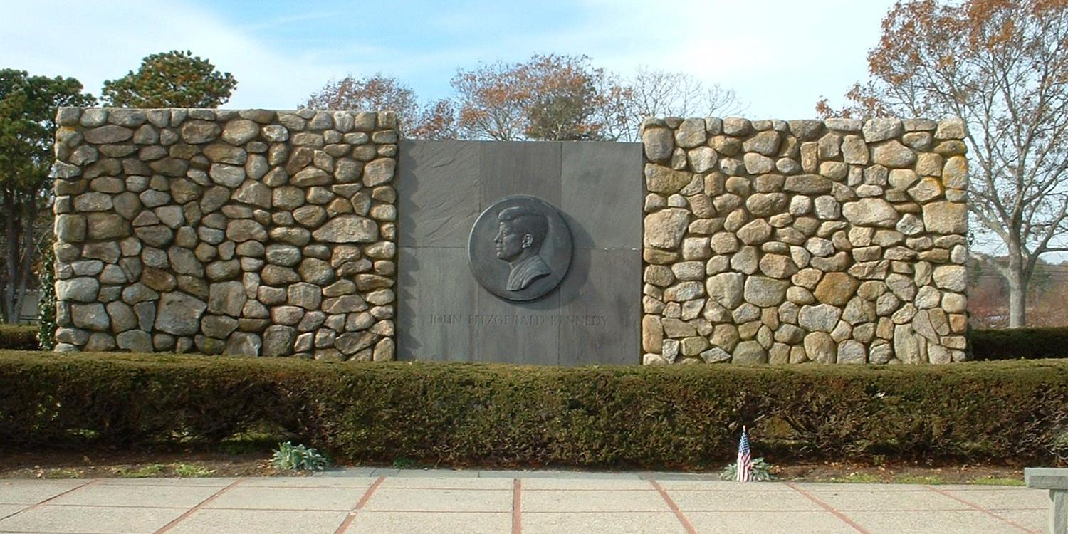 Monument to John F. Kennedy along Hyannis Harbor, Barnstable, Massachusetts.